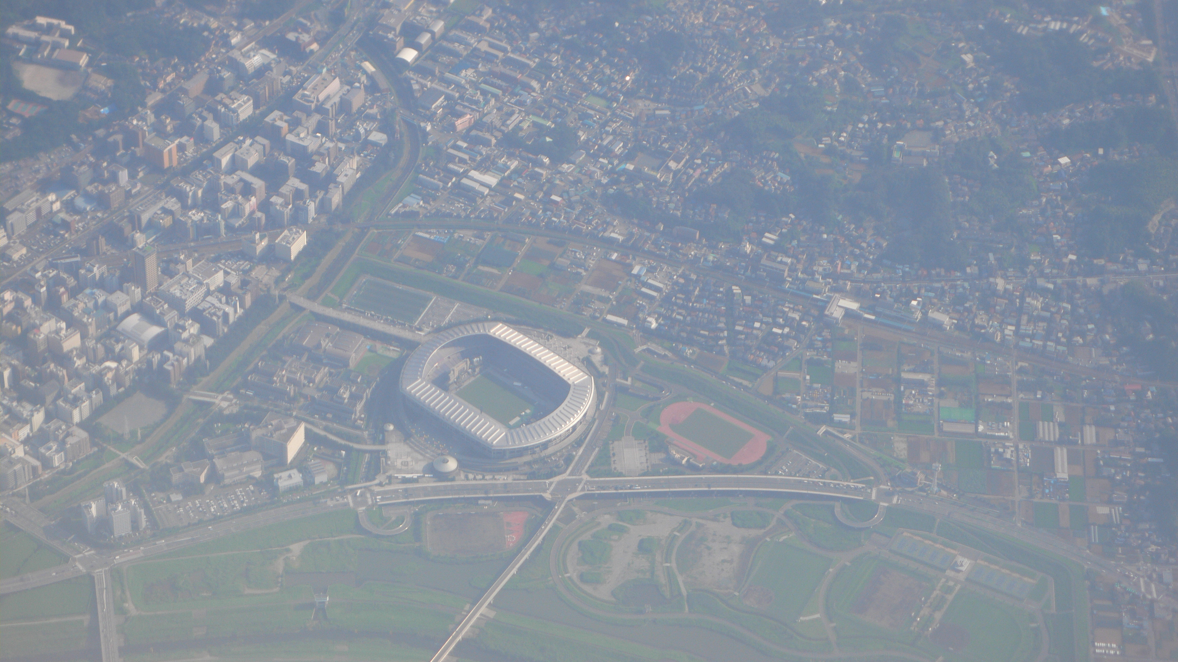 International Stadium Yokohama (横浜国際総合競技場 Yokohama Kokusai So-go- Kyo-gi-jo-), Yokohama city, Kanagawa pref, Japan.